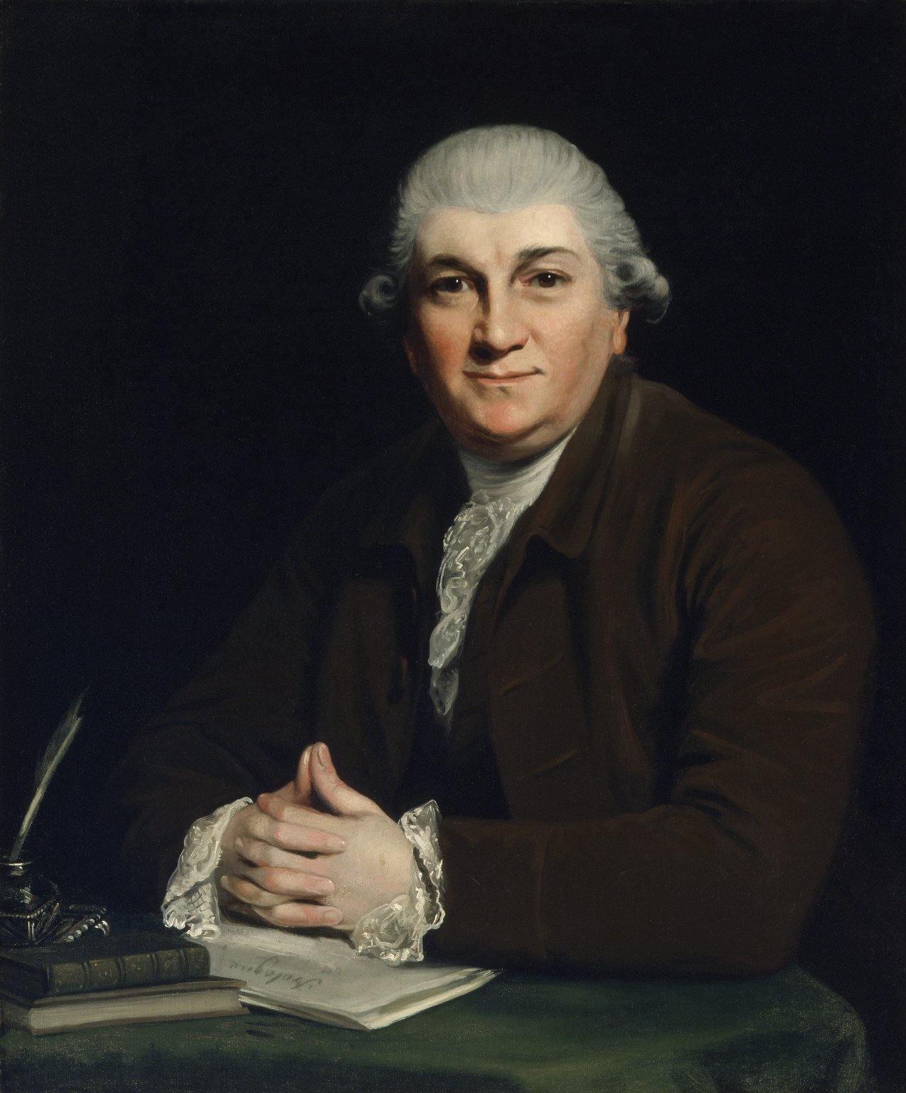 Garrick reading the Prologue of a text